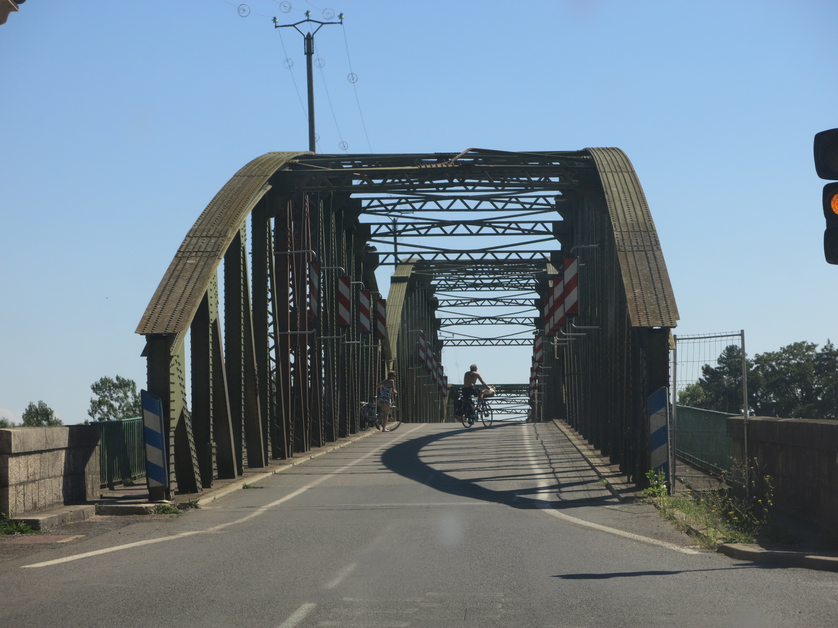 Bridge over the Saône river in Fleurville (Saône-et-Loire, France).